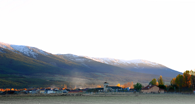 Arcones village behind "Sistema Central" montains. Segovia. Spain.